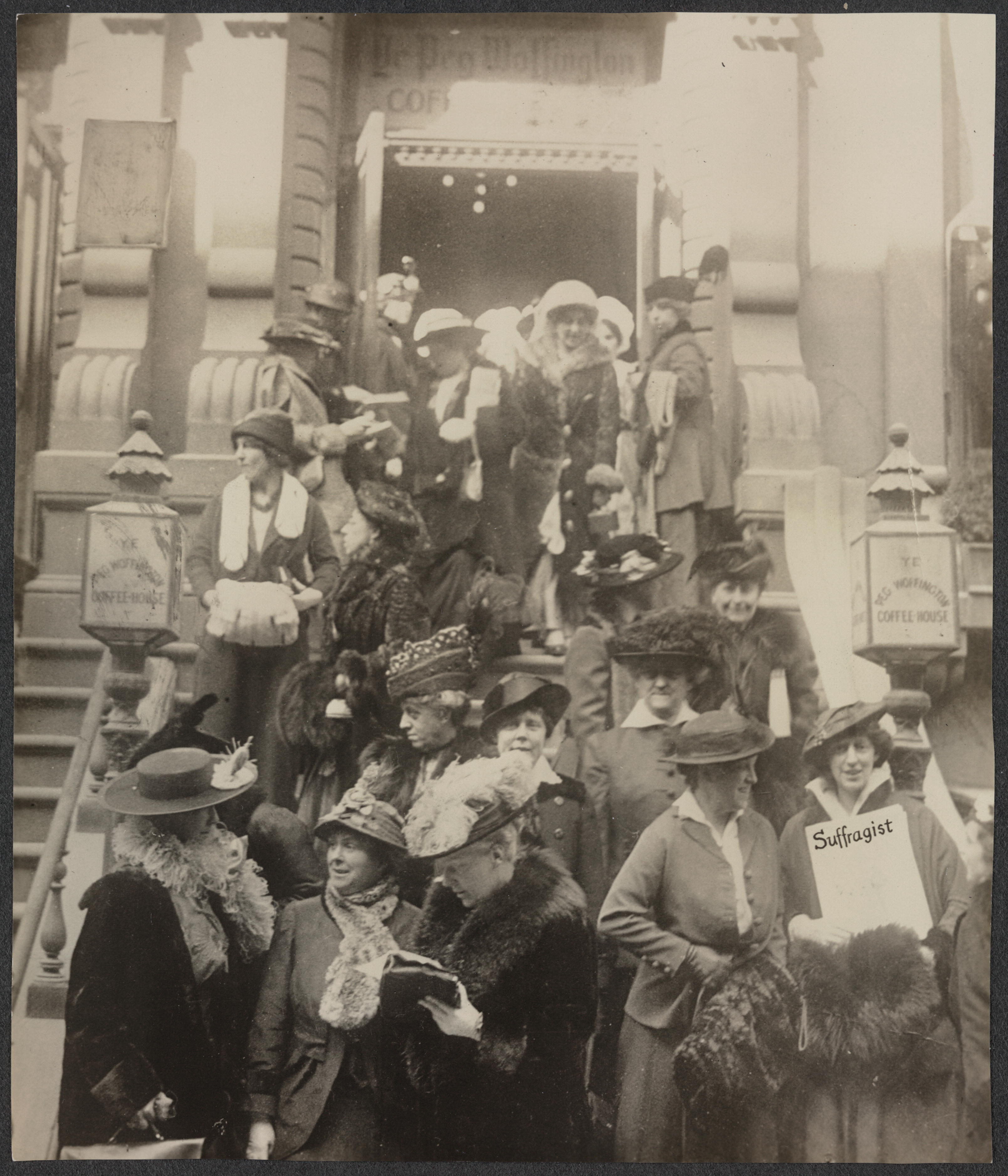 Meeting at Coffee House, New York. Front row - L-R Mrs. Wm Colt, N.Y., Mrs. Wm Kent, Cal., Mrs. John Rogers, N.Y., Lucy Burns (back of Mrs. Rogers), N.Y., Miss Hazel MacKaye, Mass. (with Suffragist)